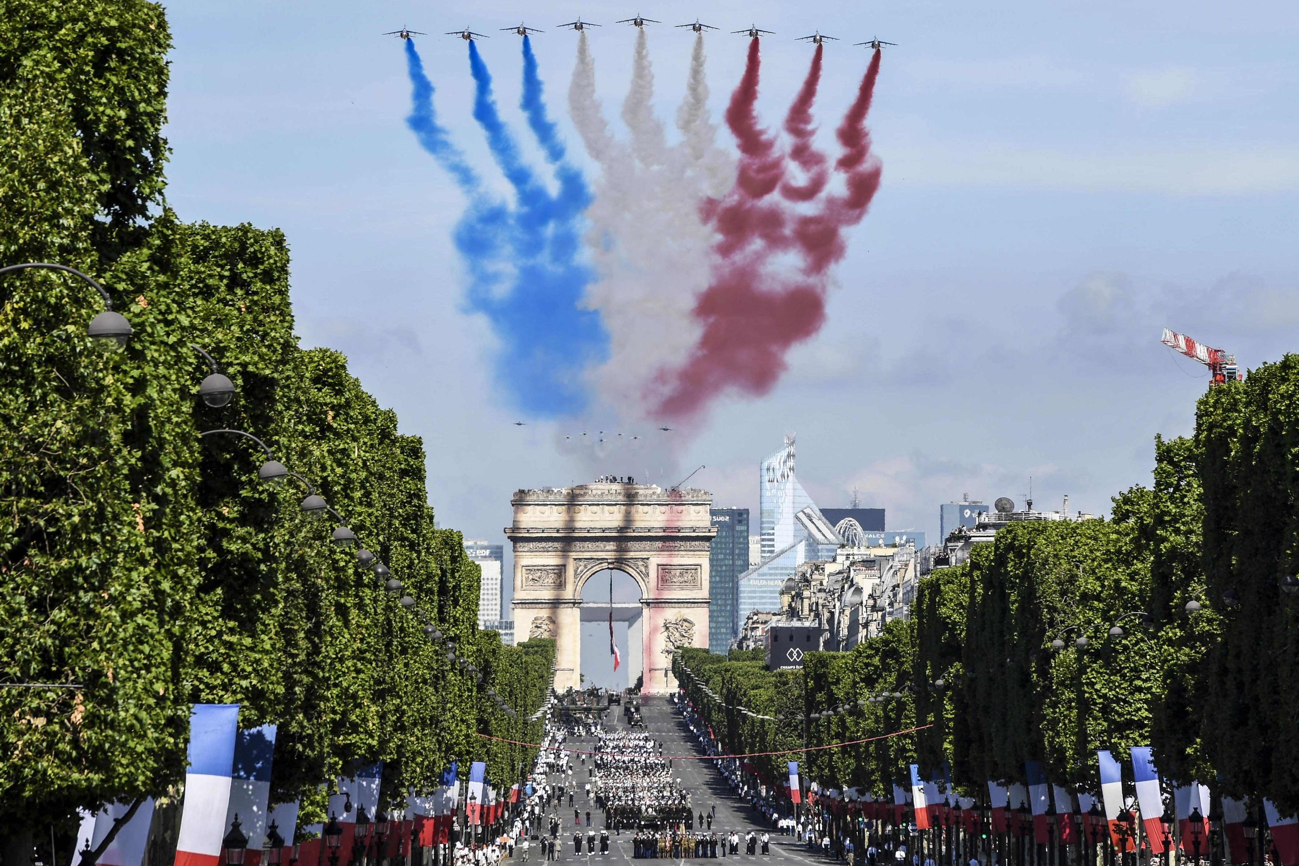 U.S. service members march in the Bastille Day parade in Paris, July 14, 2017, as smoke trails billow overhead from a flyover conducted by French Alpha jets. U.S. troops led the parade in a historic first, to commemorate the centennial of America’s entry into World War I and its long-standing partnership with France.